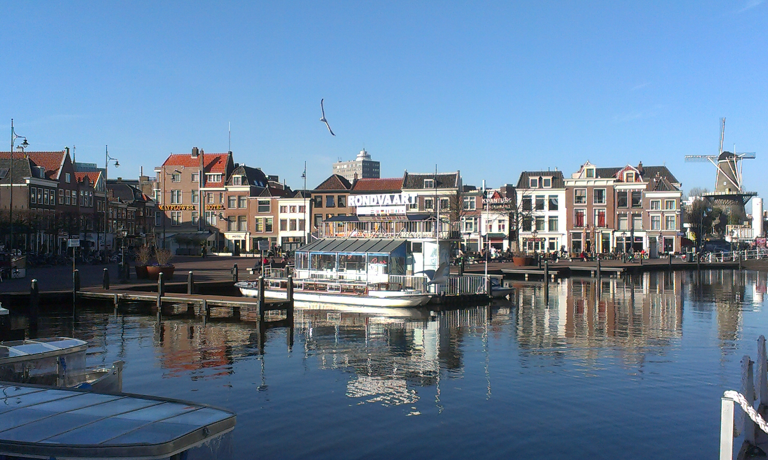 Beestmarkt square, Leiden, Netherlands